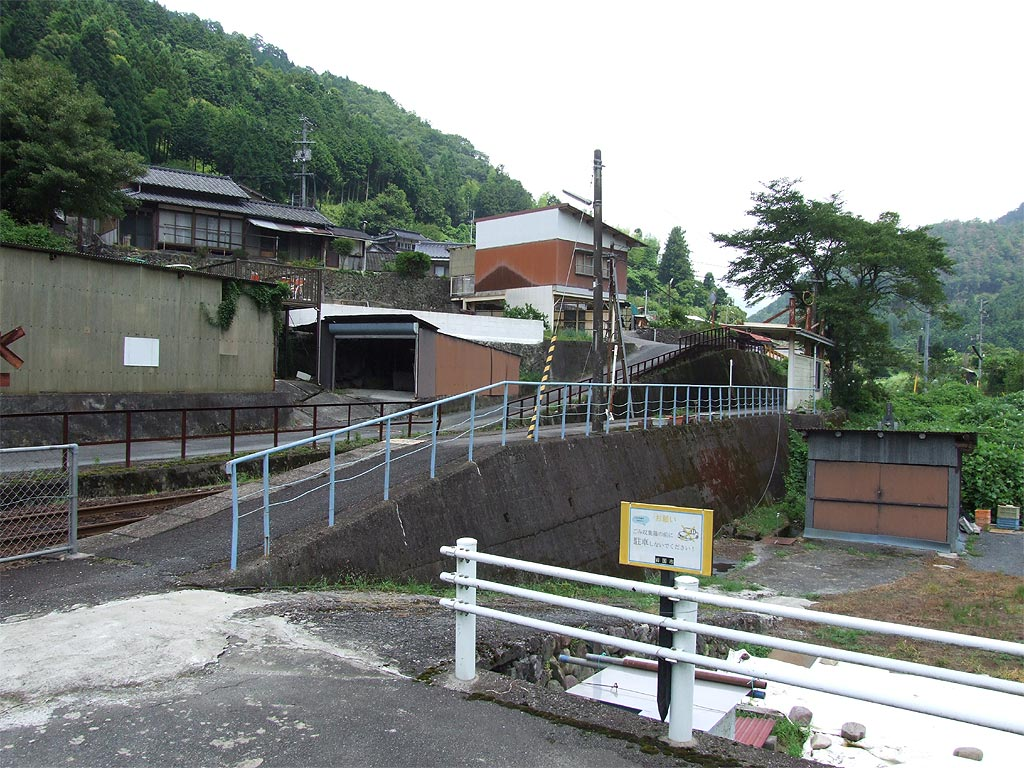 Nishikigawa railway Nishikigawa-Seiryu line. Yanaze station.